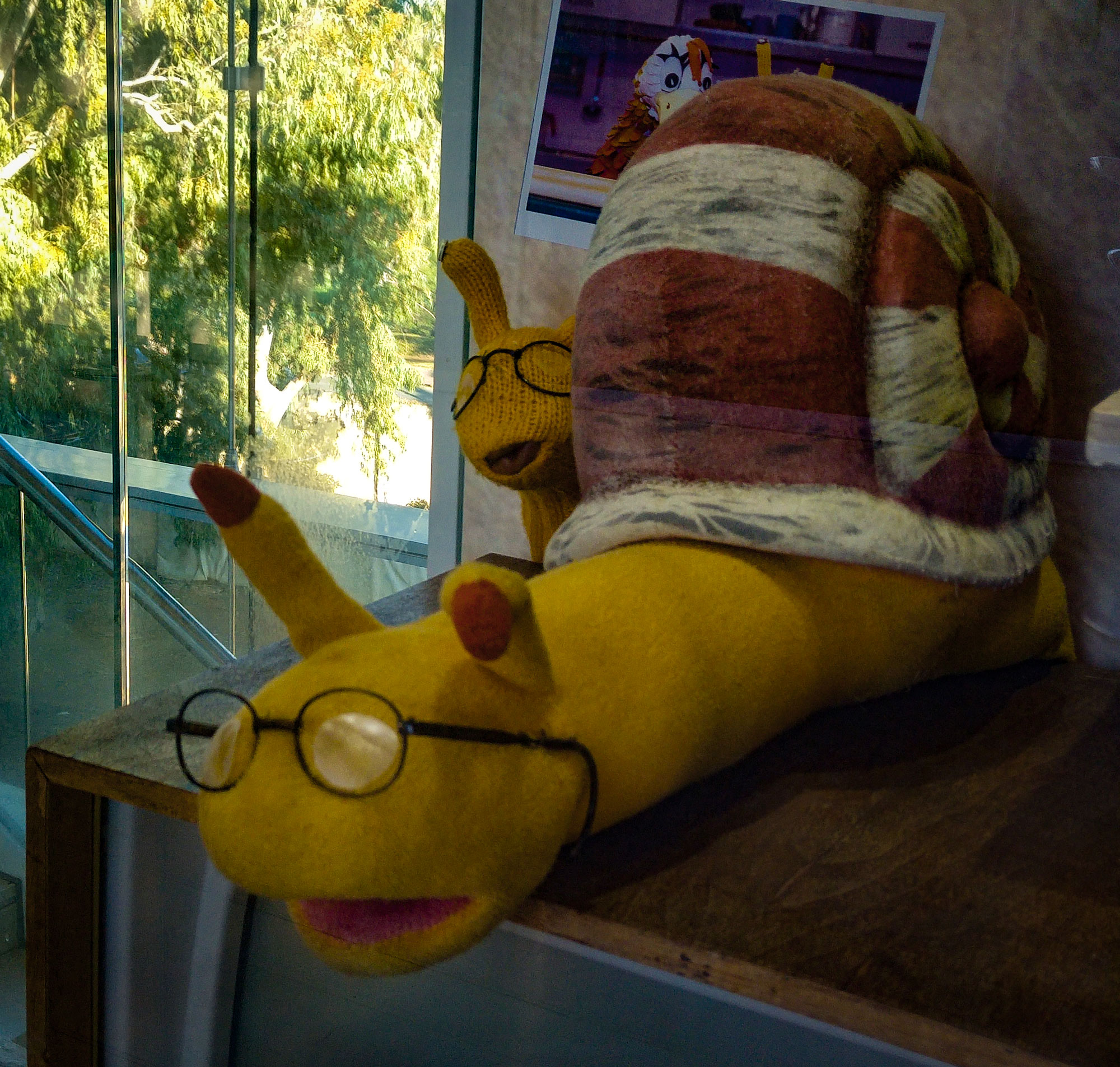 Shabi was one of the main characters in one of the first Israeli Educational Television shows, Parpar Nechmad. Photo taken in Interdisciplinary Center Herzliya School of communication.